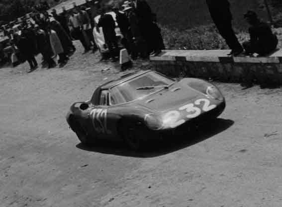 Entry #232 at Targa Florio on May 8 1966 was a Ferrari 250 LM s/n 5891 driven by owner Antonio Nicodemi of the Scuderia S. Stefano. Co-driver was Francesco Lessona. [1] Driver in this picture is not known.